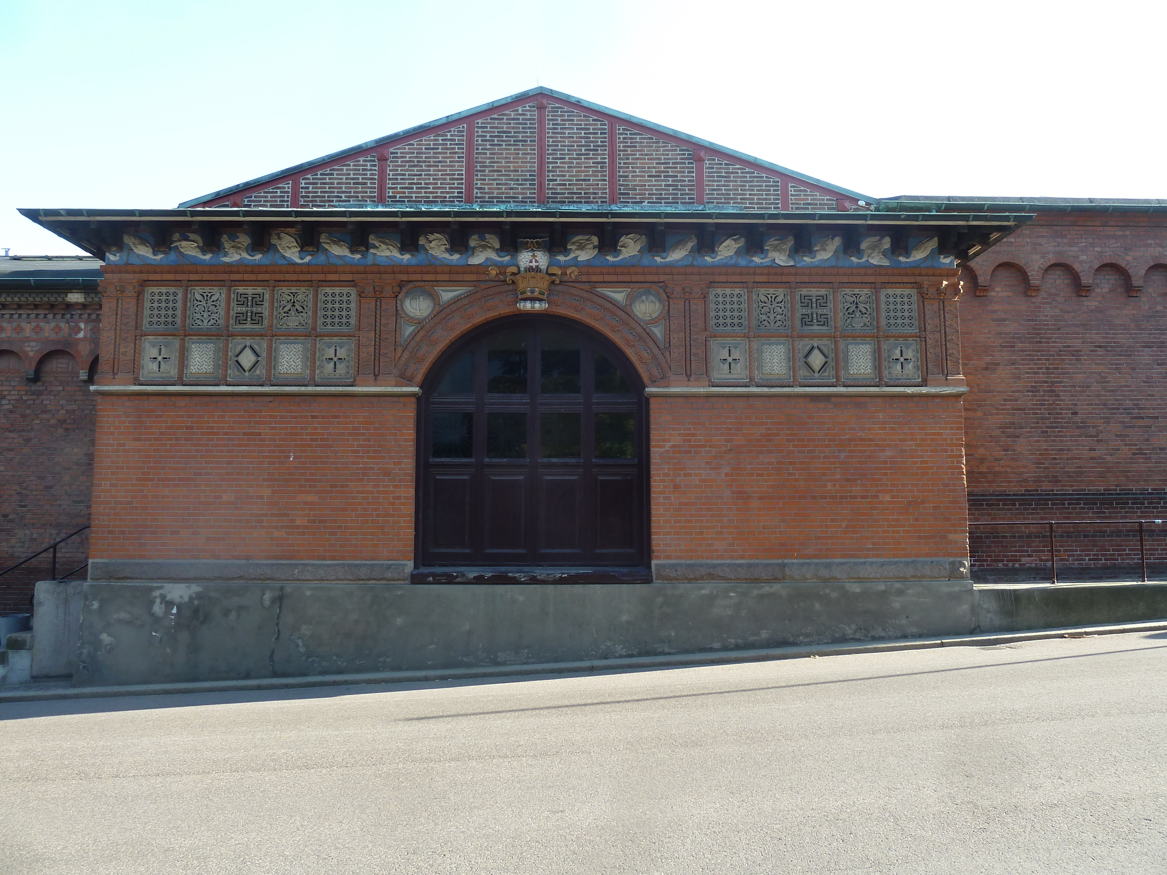 The listed Building of the former Carlsberg Museum in Copenhagen, Denmark